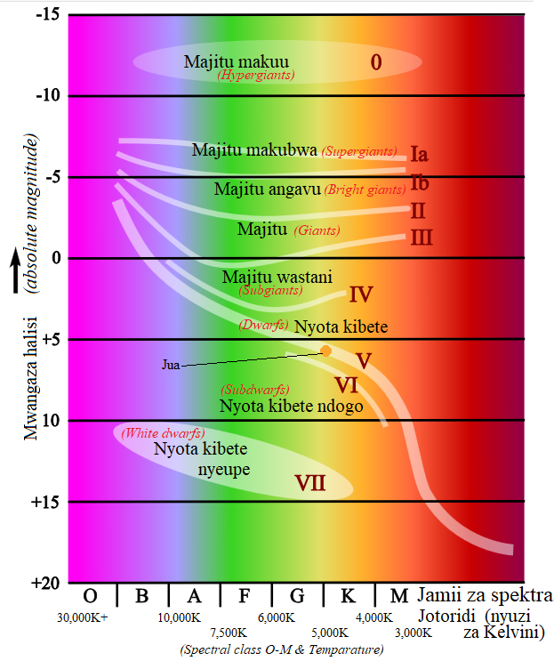 Hertzsprung-Russel diagramm, Swahili text Kiswahili: Mchoro wa Hertzsprung-Russel, matini kwa Kiswahili